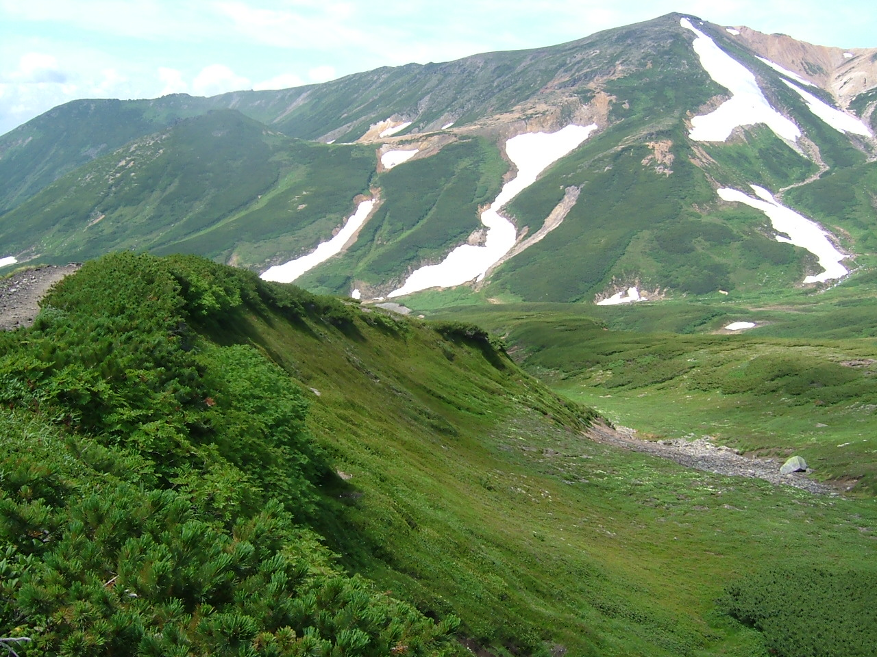 This photo was taken from Asahidake in Daisetsusan National Park, Hokkaido, Japan. I took it with a digital camera in August 2005.